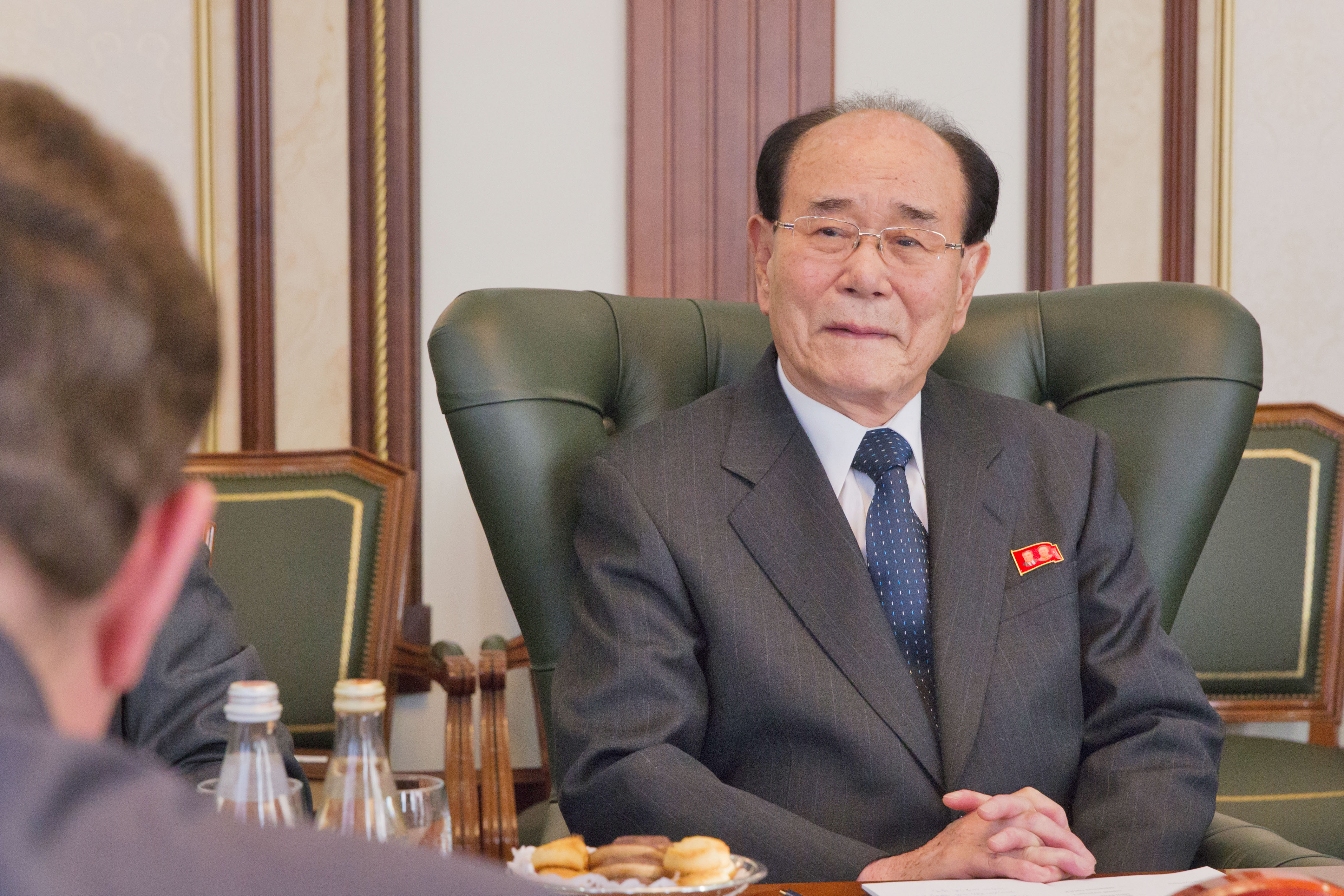 Kim Yong-nam in Moscow, 2014